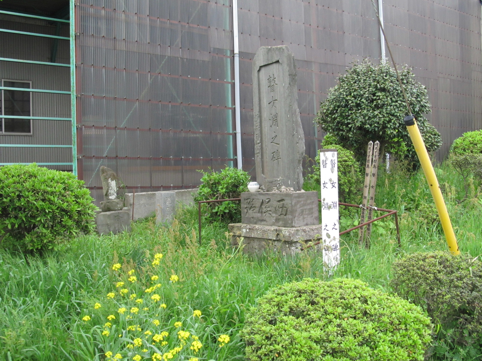 Gozegafuchi-no-hi (right), Dōsojin (center), Dotebansama / Suinanyoke (left) in Fujisawa City, Kanagawa Prefecture, Japan.